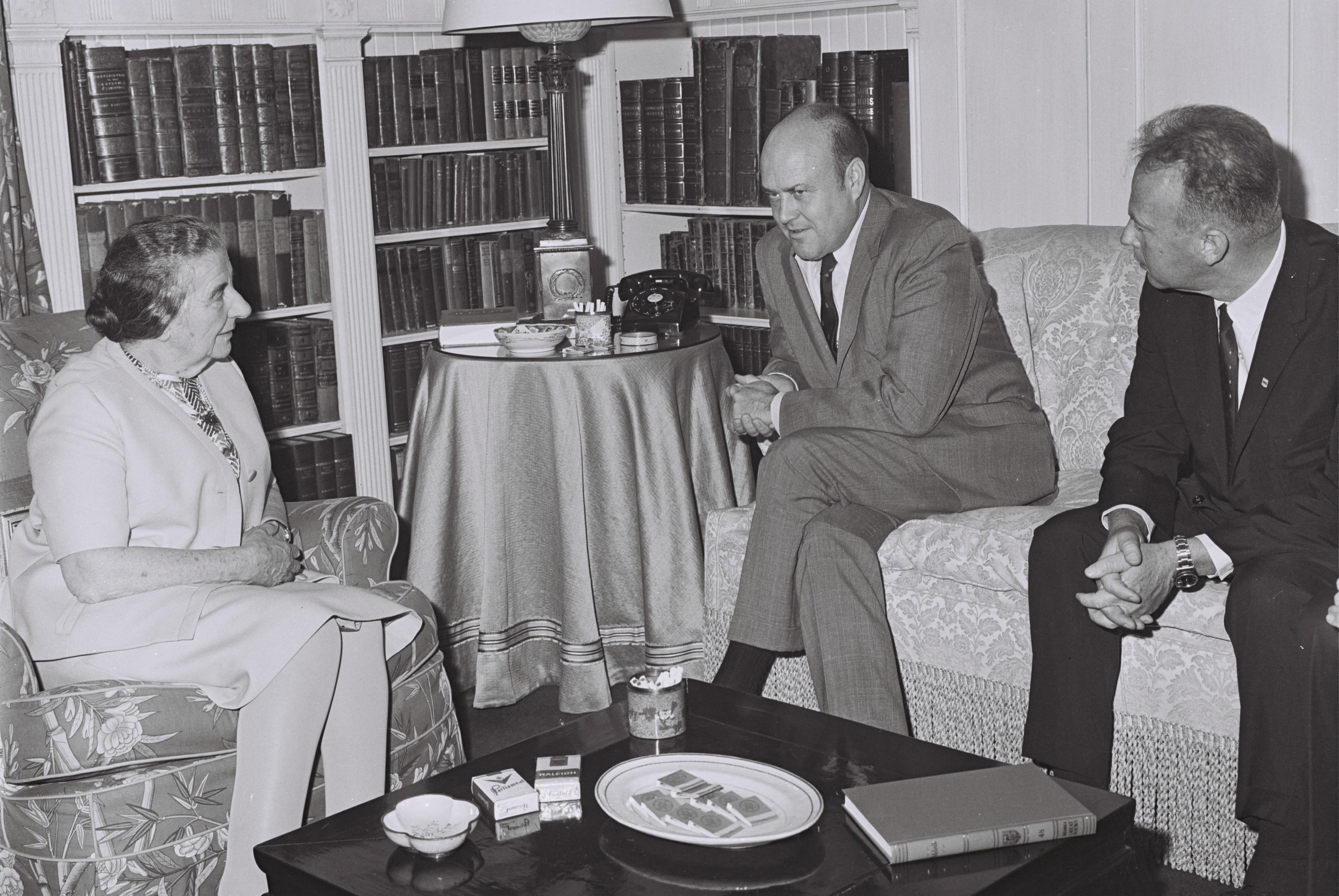 U.S.A. secretary of defence Melvin Laird, calling on p.m. Golda Meir at Blair House in Washington in presence of amb. Yitzhak Rabin (right).